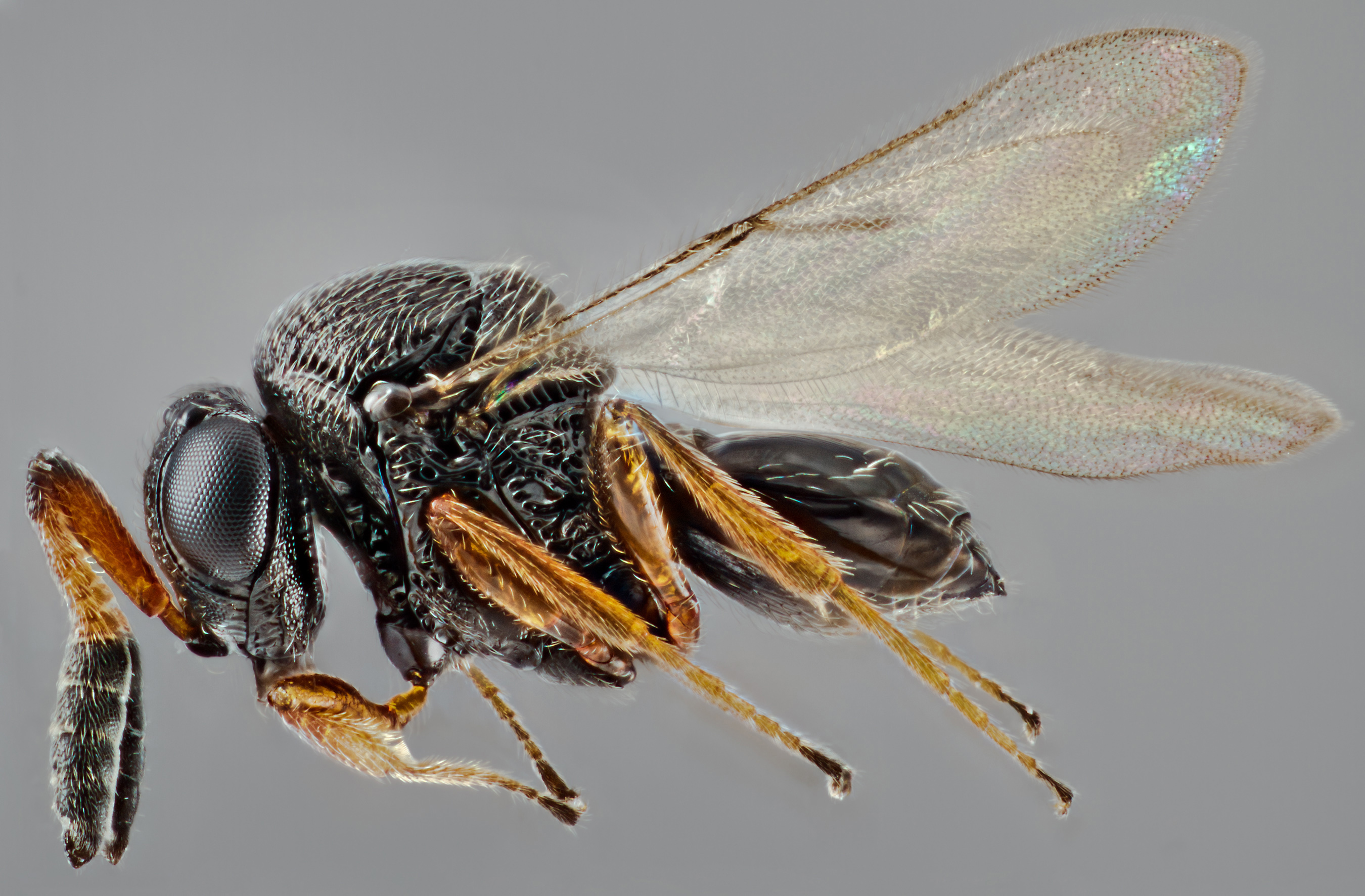 A female parasitoid wasp (Trissolcus mitsukurii) from Asia is one of several parasitoids being evaluated as a potential biocontrol of the brown marmorated stink bug (Halyomorpha halys). USDA photo by Steve Valley.